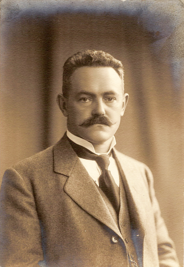 Emil Sommarin (1874-1955), Swedish professor in economics at Lund university, Sweden.